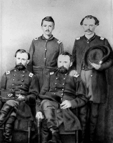 Photograph of Lucius F. Hubbard (front row, left) seated with Lt. Col. William B. Gere, Thomas P. Gere, William B. McGrorty; all members of the 5th Minnesota Regiment, taken after the Battle of Corinth. Photograph Collection 1862. Location no. por 8119 p1 Negative no. 88908